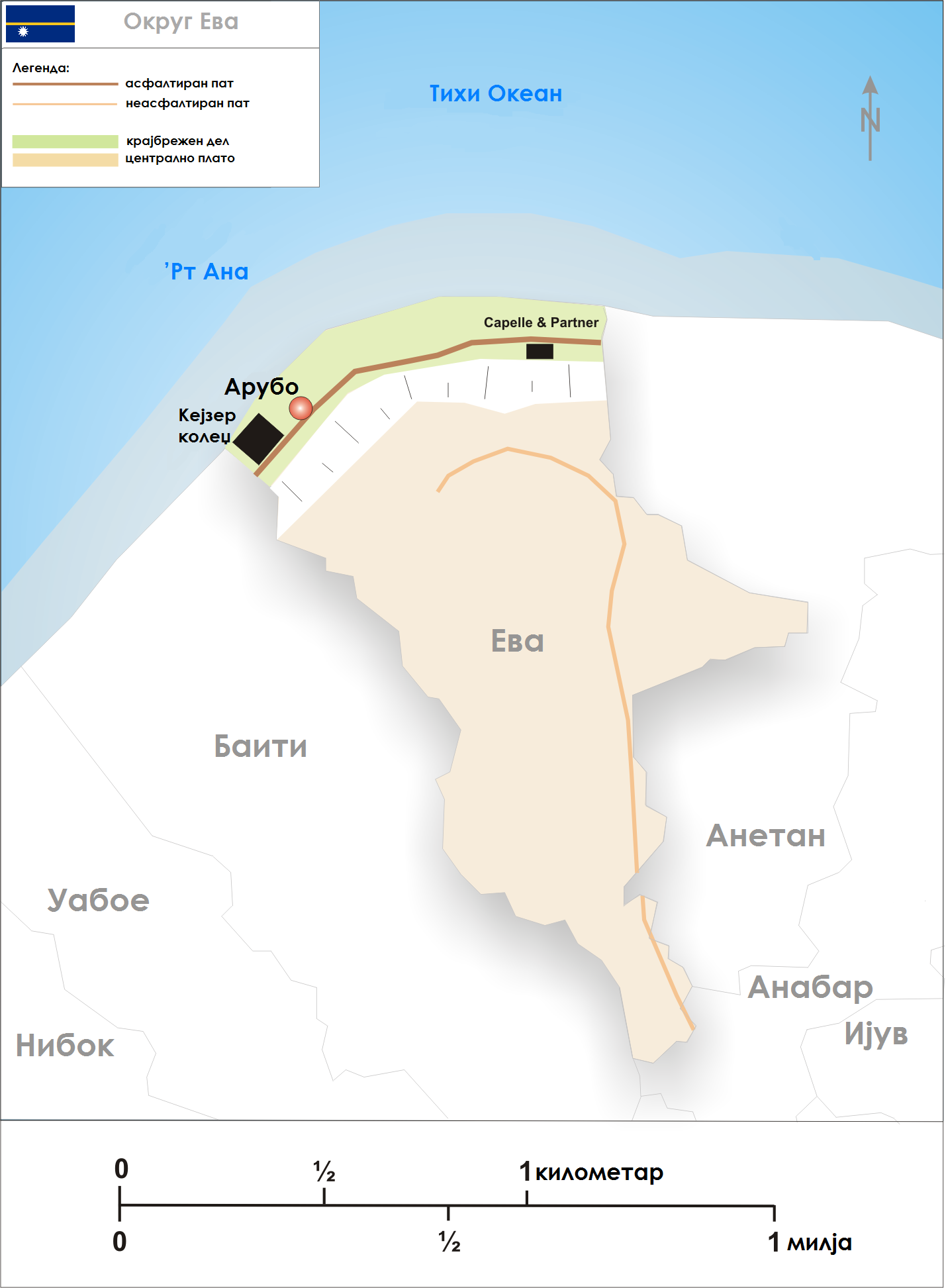 Map of Ewa Districst, Nauru.